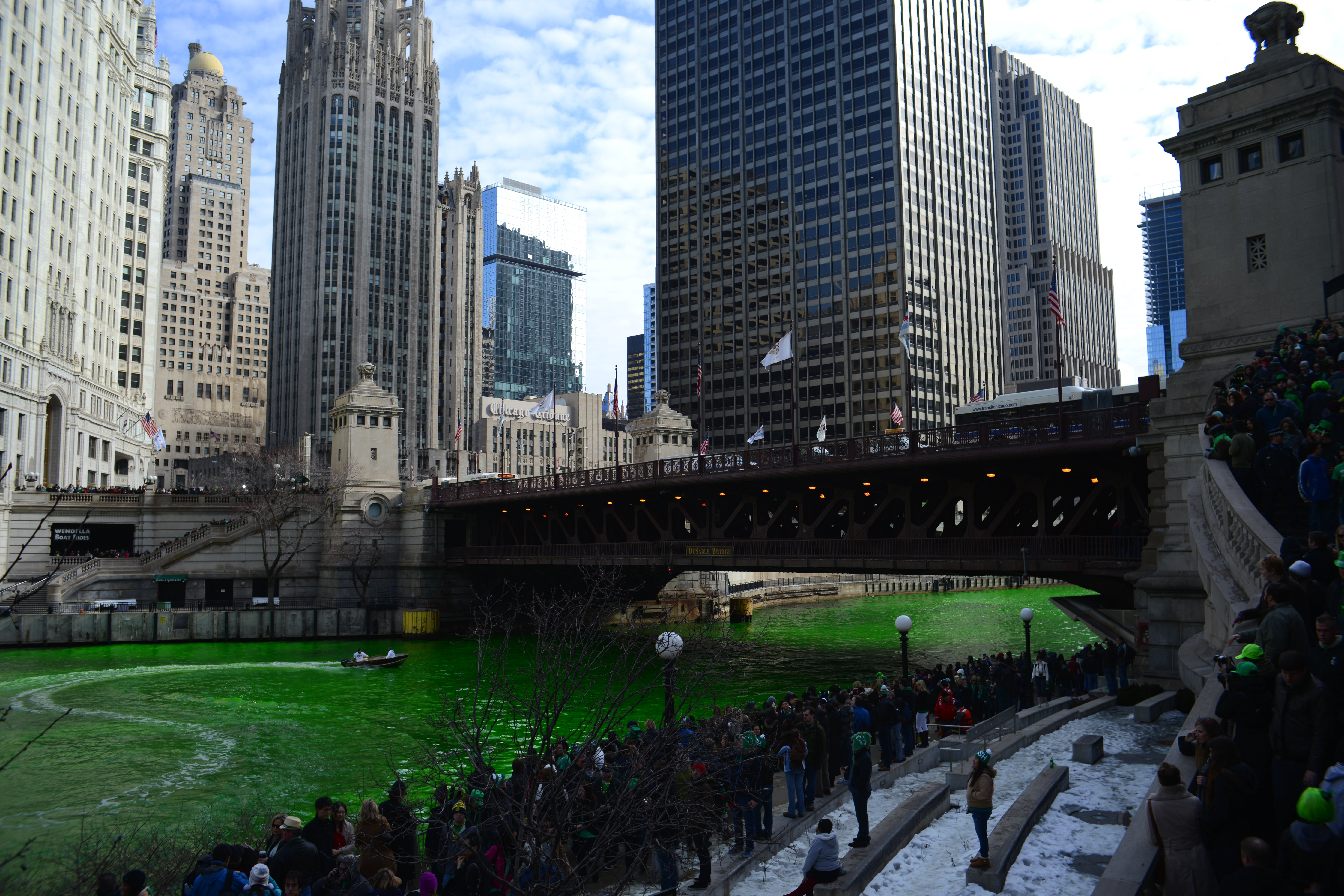 Chicago River around Saint Patrick's Day, Chicago, IL, USA